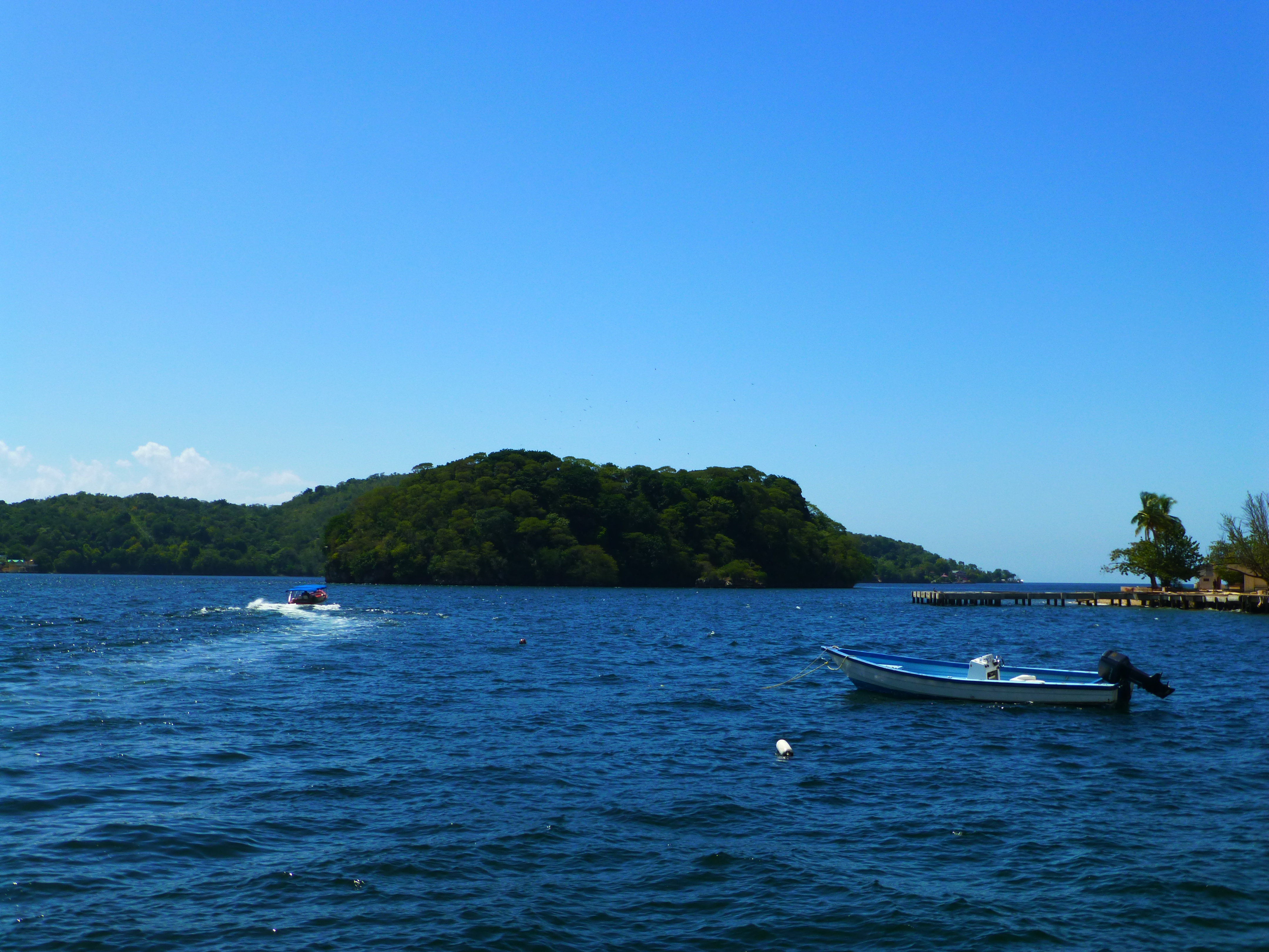 Centipede Island (aka Little Gasparee aka Gasparillo) in front of Gaspar Grande. On the right: Mainland. Chaguaramas, Diego Martin, Trinidad and Tobago.